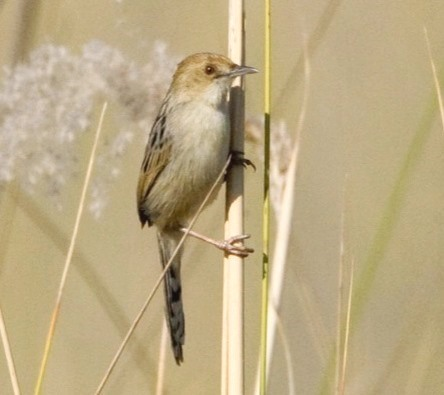 Chirping cisticola at Moremi, Botswana on 7th August 2011 Distribution: Distribution map, Avibase ssp Distribution map, Avibase